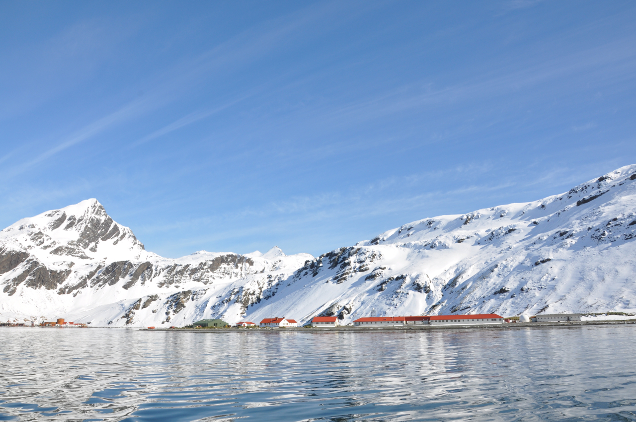 King Edward Point - South Georgia - 2009